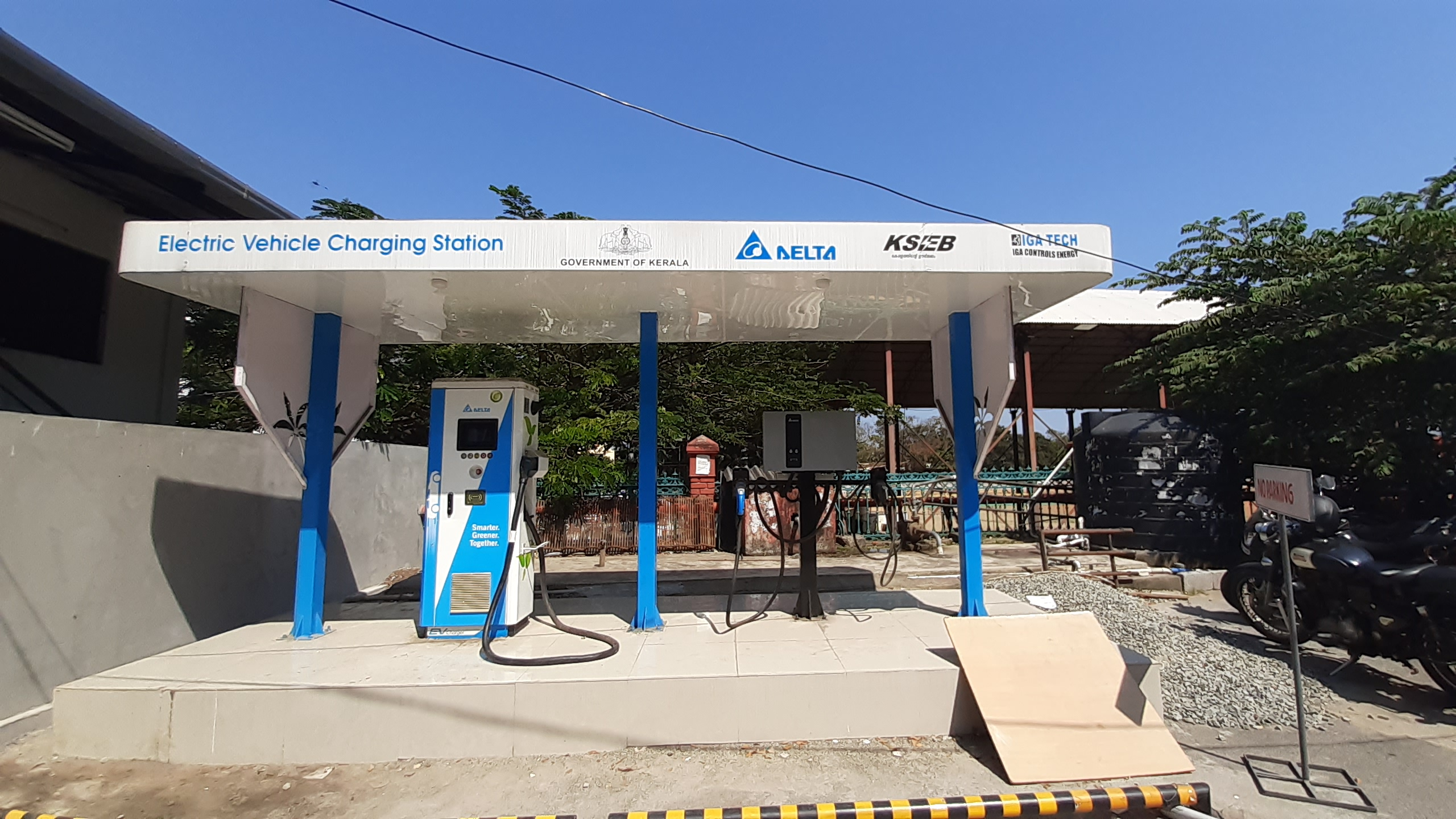 Electric vehicle charging station of KSEB